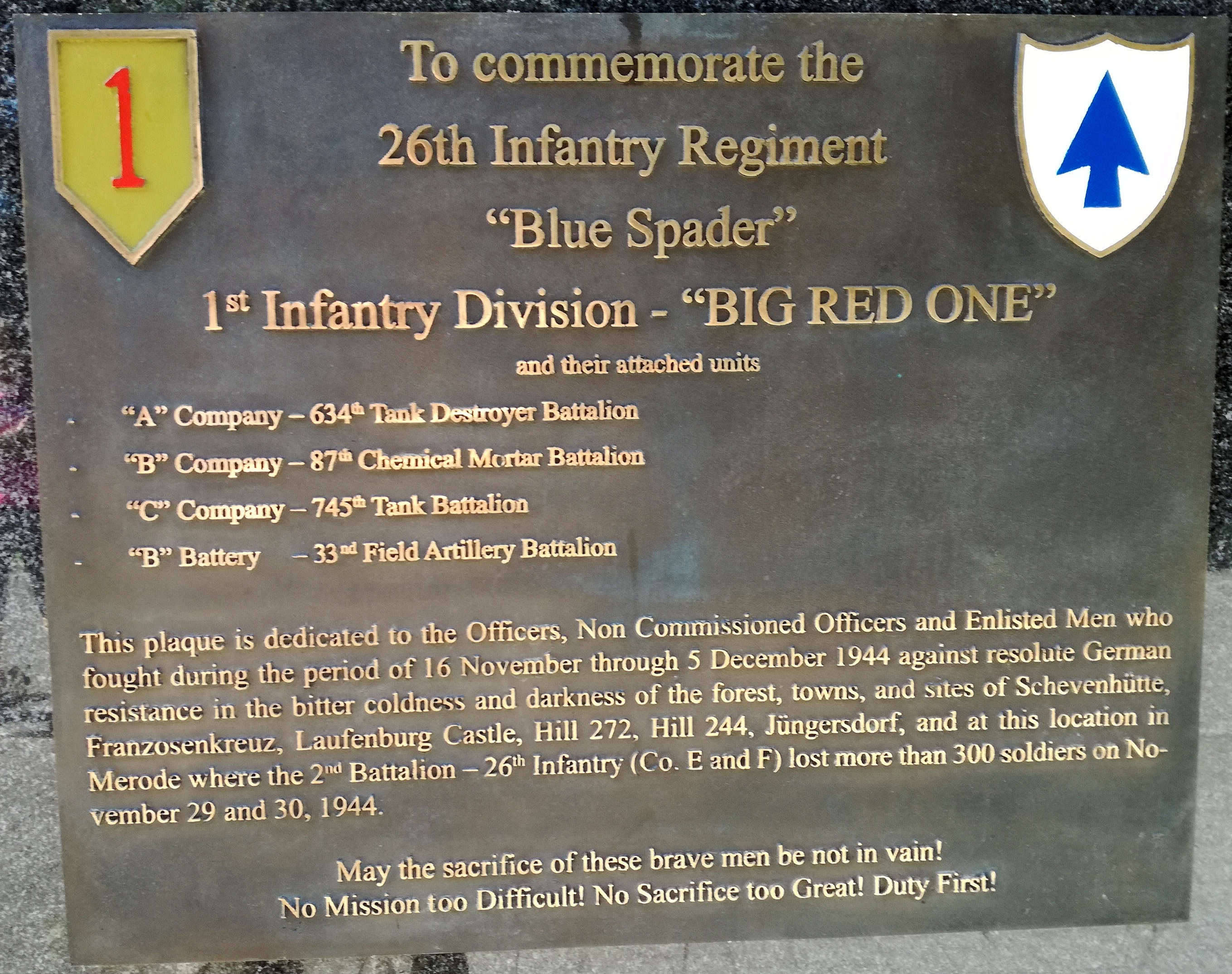 Commemorative plaque at a house in Merode, Germany, remembering the soldier killed in action of the 26th Infantry Regiment of the 1st Infantry Division in Merode, German in November, 1944.